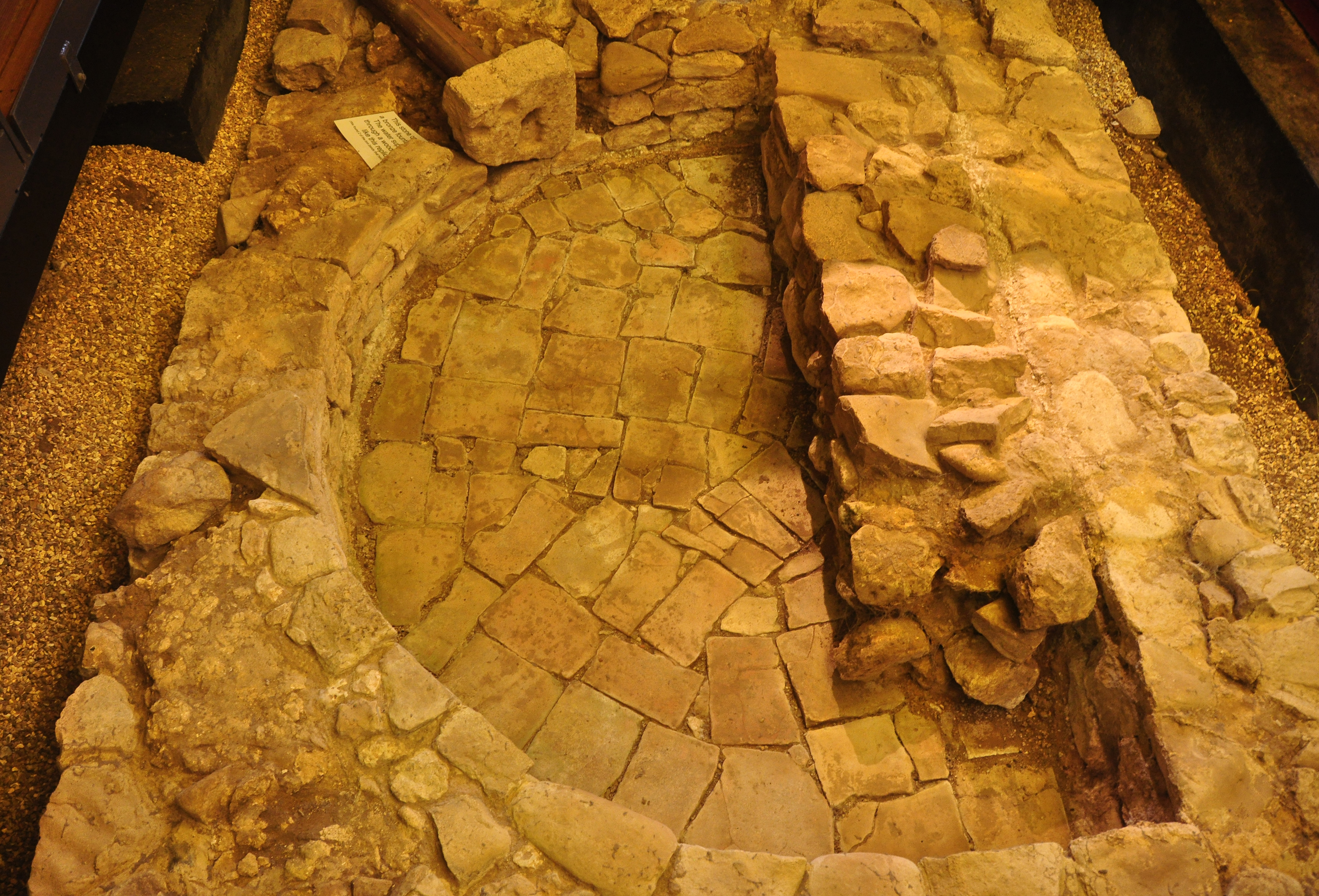 The nymphaeum in Brading Roman Villa on the Isle of Wight.